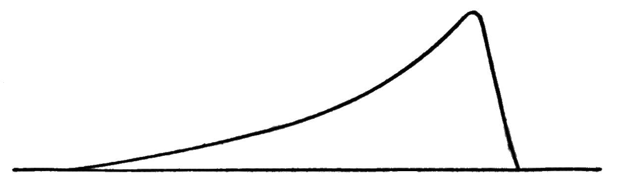 Abrupt drop of a golf ball or electron flow